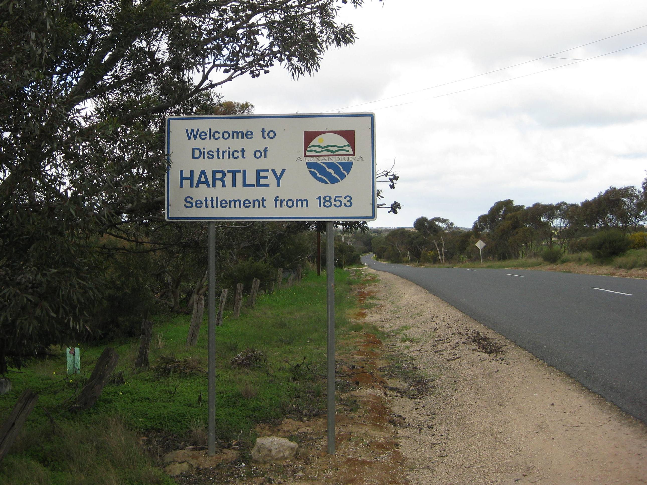 Entrance sign at the beginning of Chaunceys Line Road, located near the corner of the Strathalbyn-Callington Road.